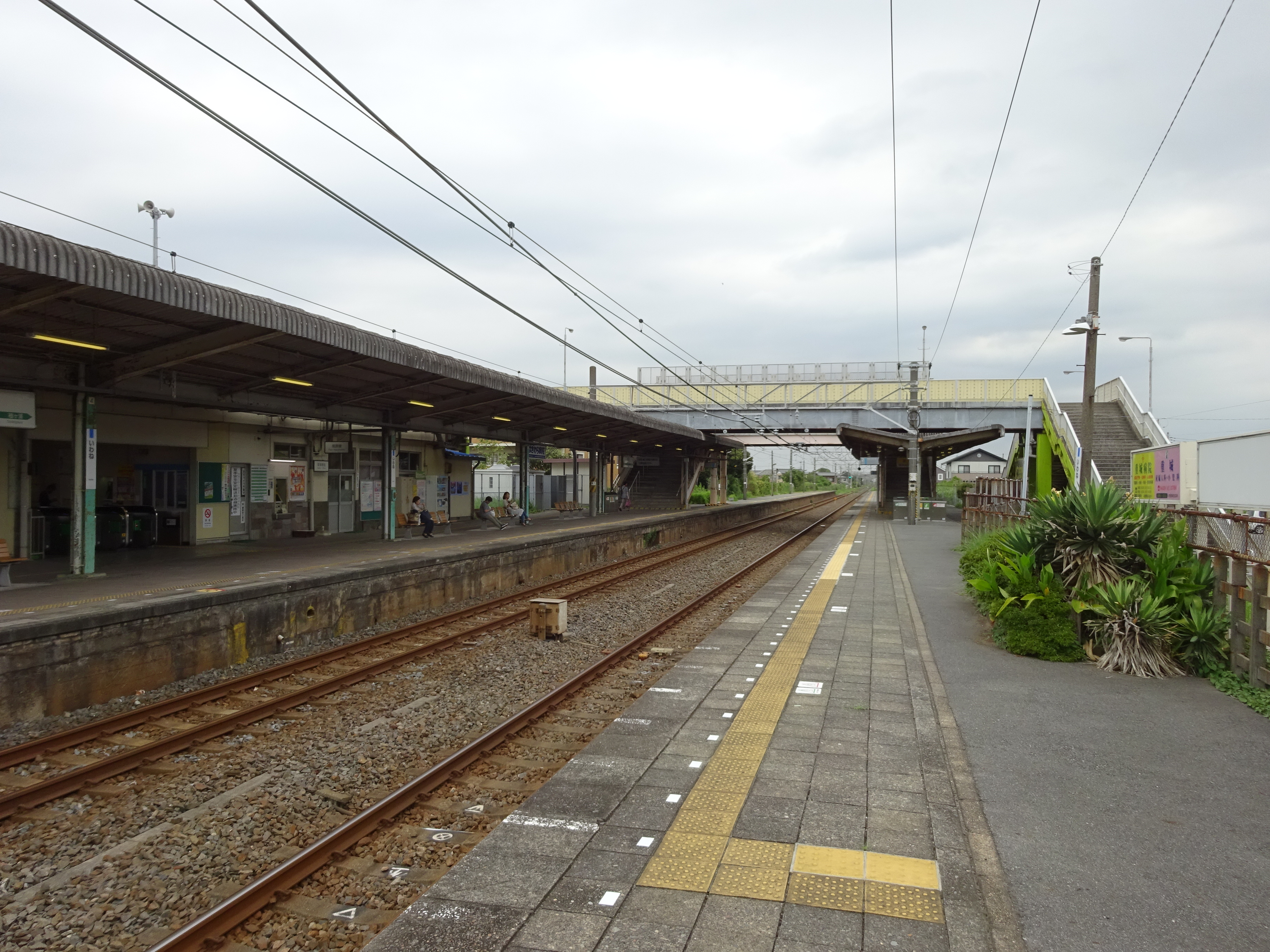 Platforms of Iwane Station